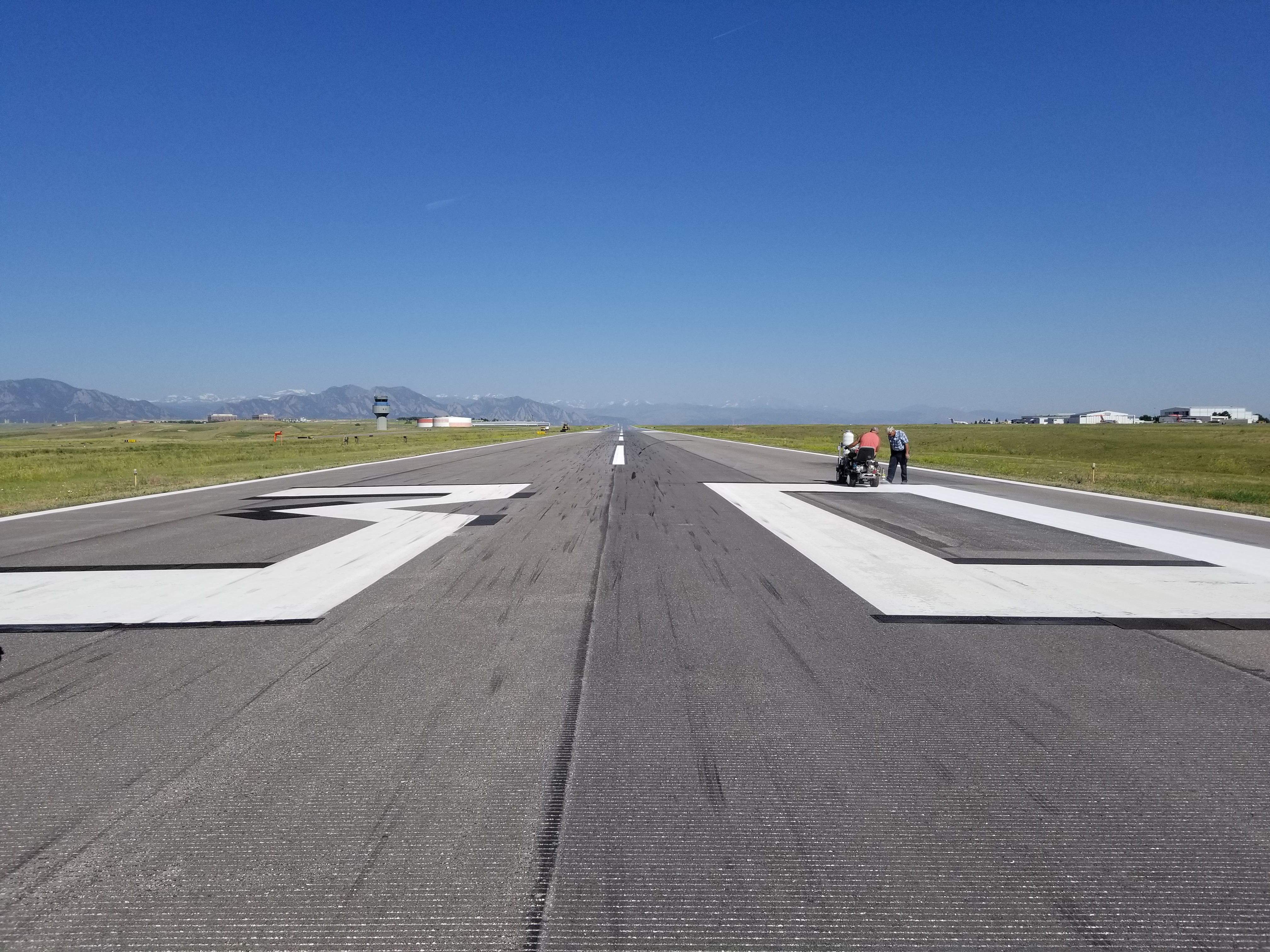 Runway identifiers being painted at KBJC.